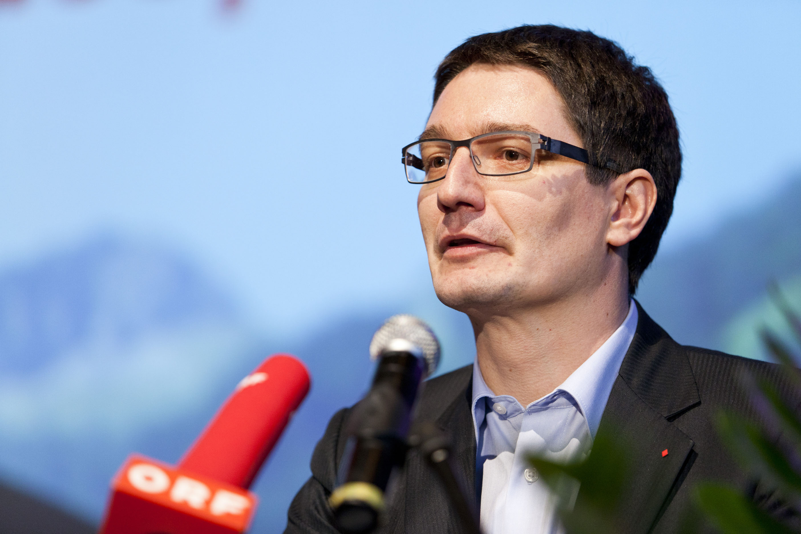 4.11.2011 Foto: Lisa Mathis